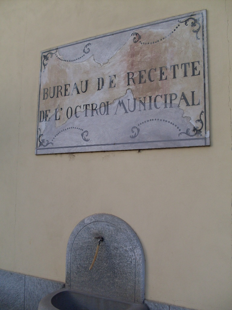 Bureau de recette municipal,17th century tax office of Racconigi